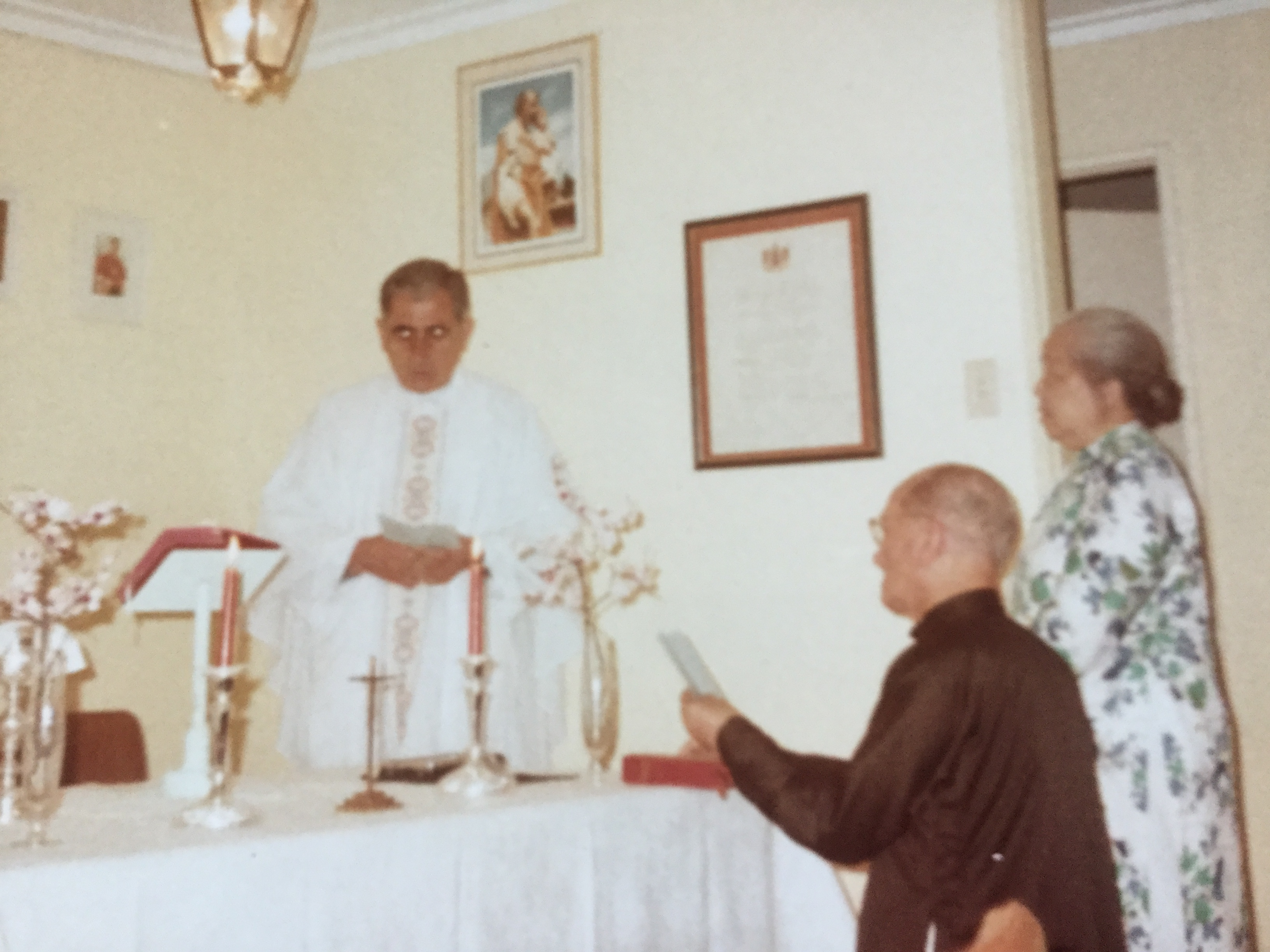 Pciture taken from personal archive